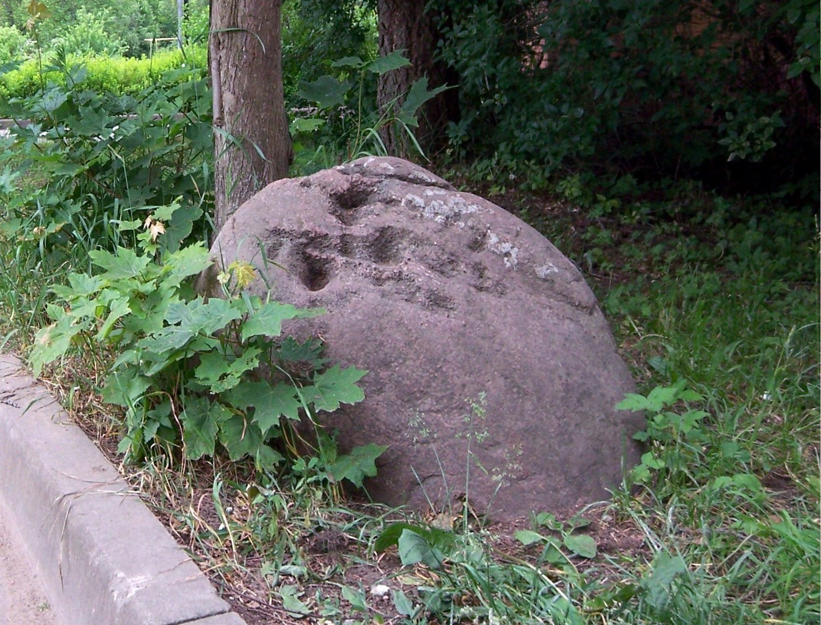 Sledovik stone (meryan sacred stone, geologically: a glacier bolder) which is exposed in Mendeleevo, Russia.